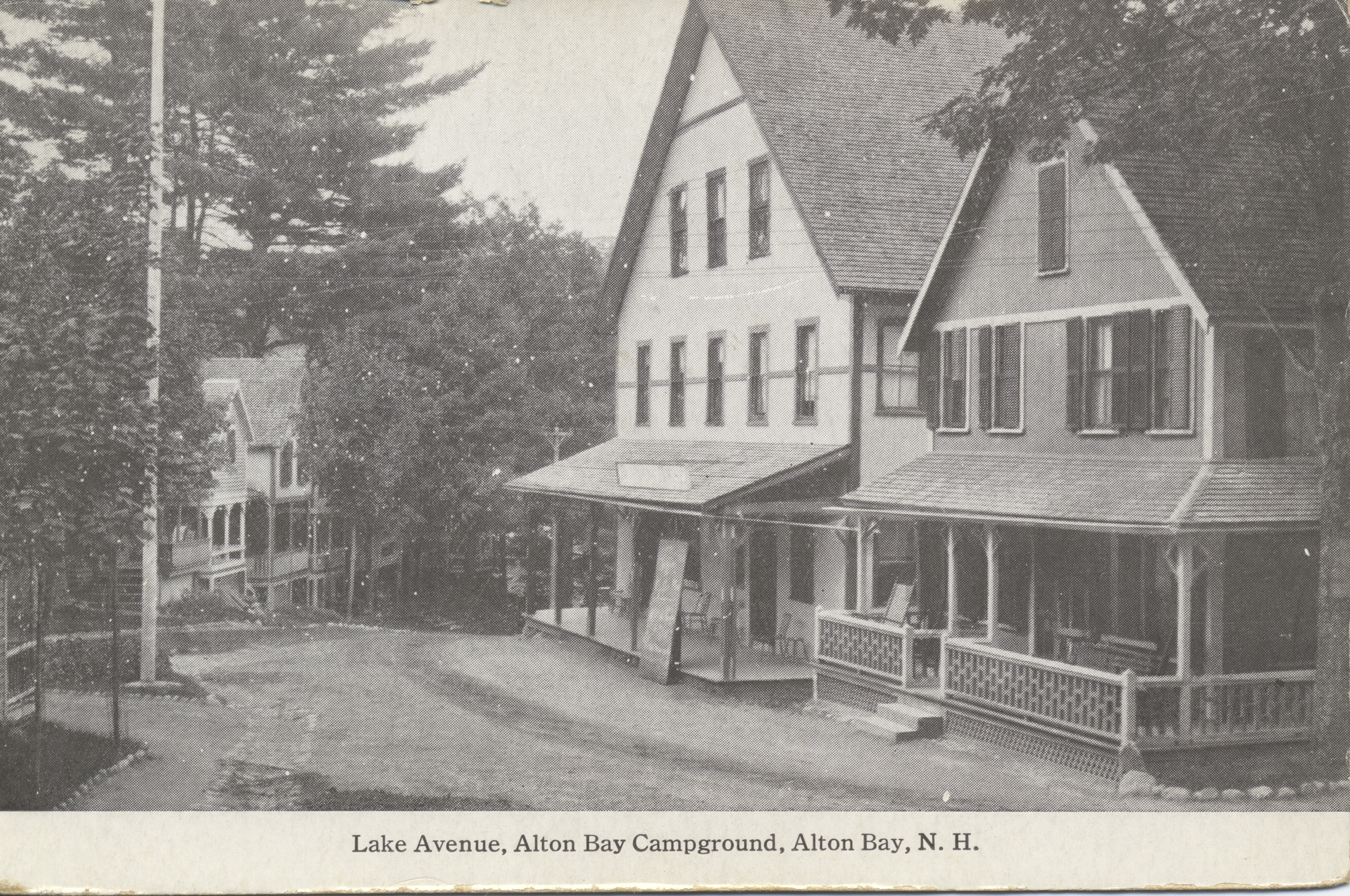 Persistent URL: Subject (TGM): Historic sites; Camps; Historic buildings; New Hampshire--Alton Bay